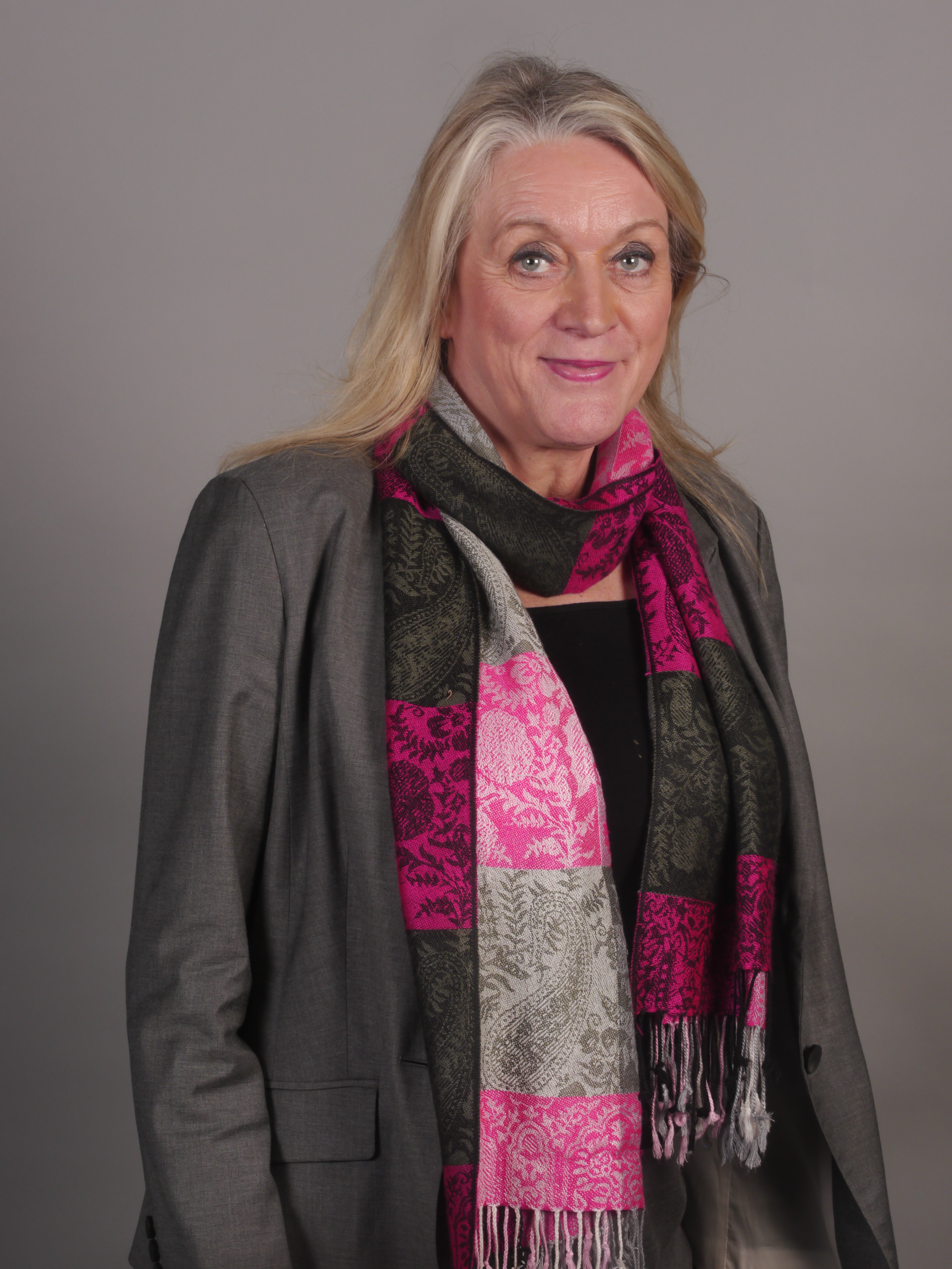 Photograph taken during Wiki Loves Parliament in february 2014 in European Parliament of Strasbourg.